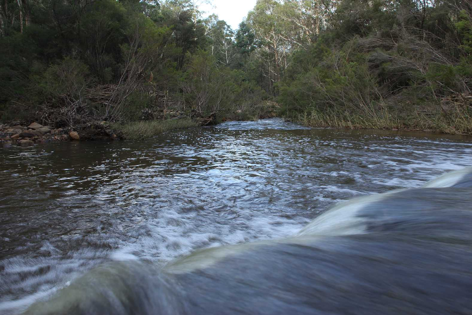 Wolgan River. Taken southeast of Newnes near Newnes Glow Worm car park.